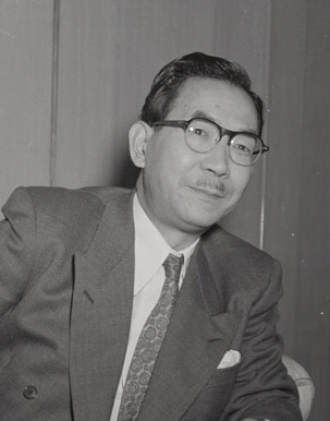 Japanese PM Takeo Miki in 1951. Since this picture's copyright belonged to a Japanese magazine company, the license has expired since this was taken in 1951.